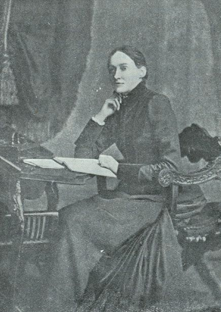 Irish writer Jane Barlow, portrait as published in "The Month" in March 1897